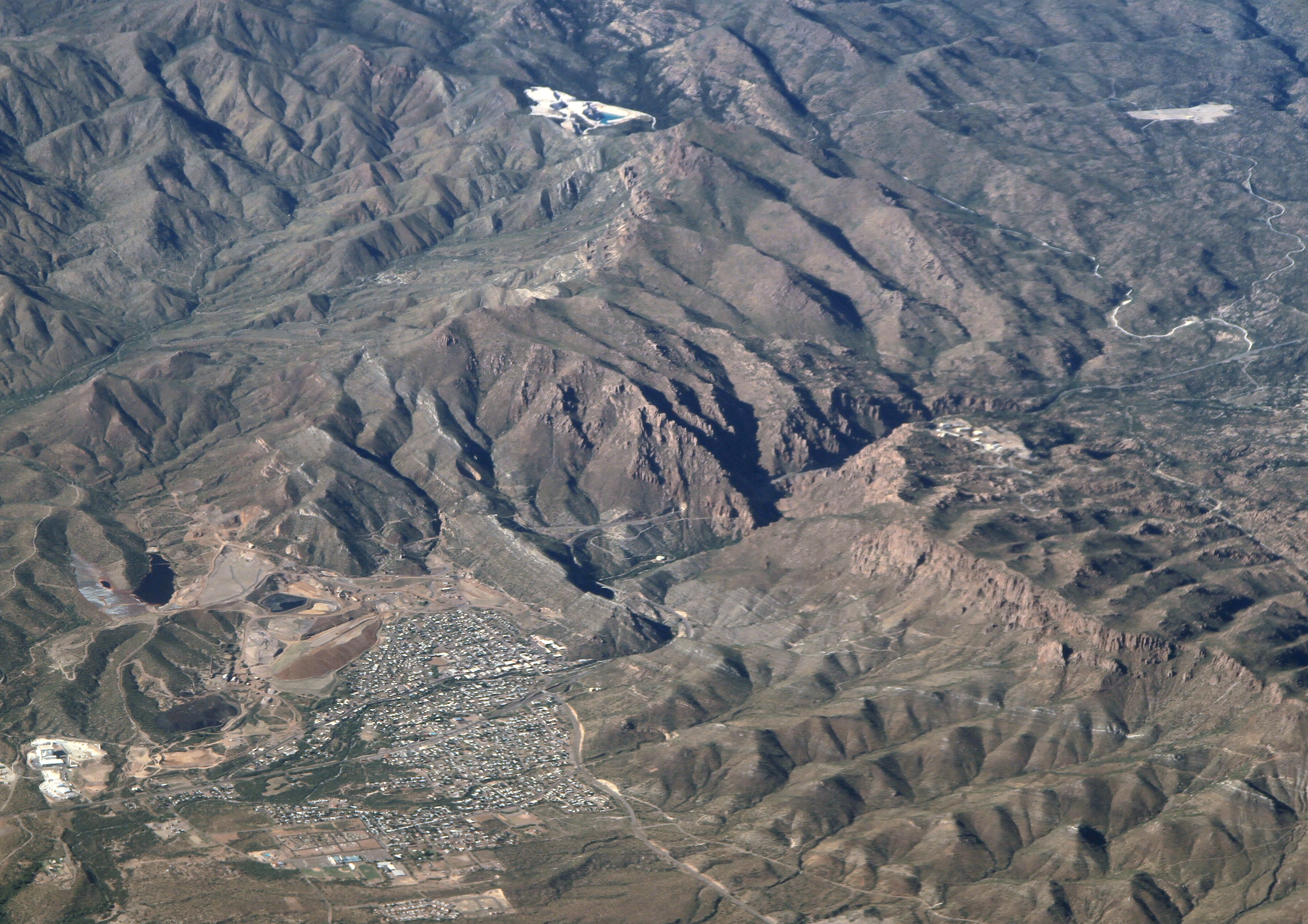 Superior AZ aerial photo, looking North